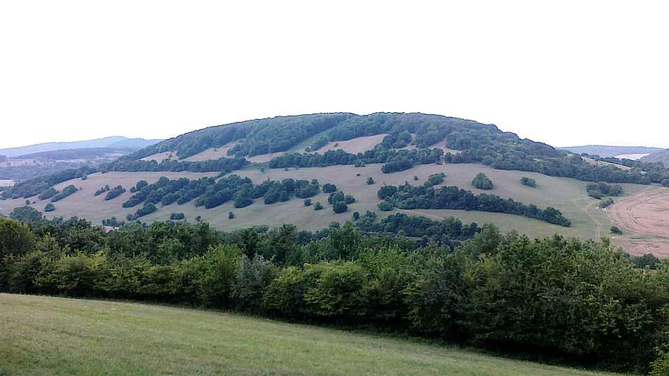 borotovec